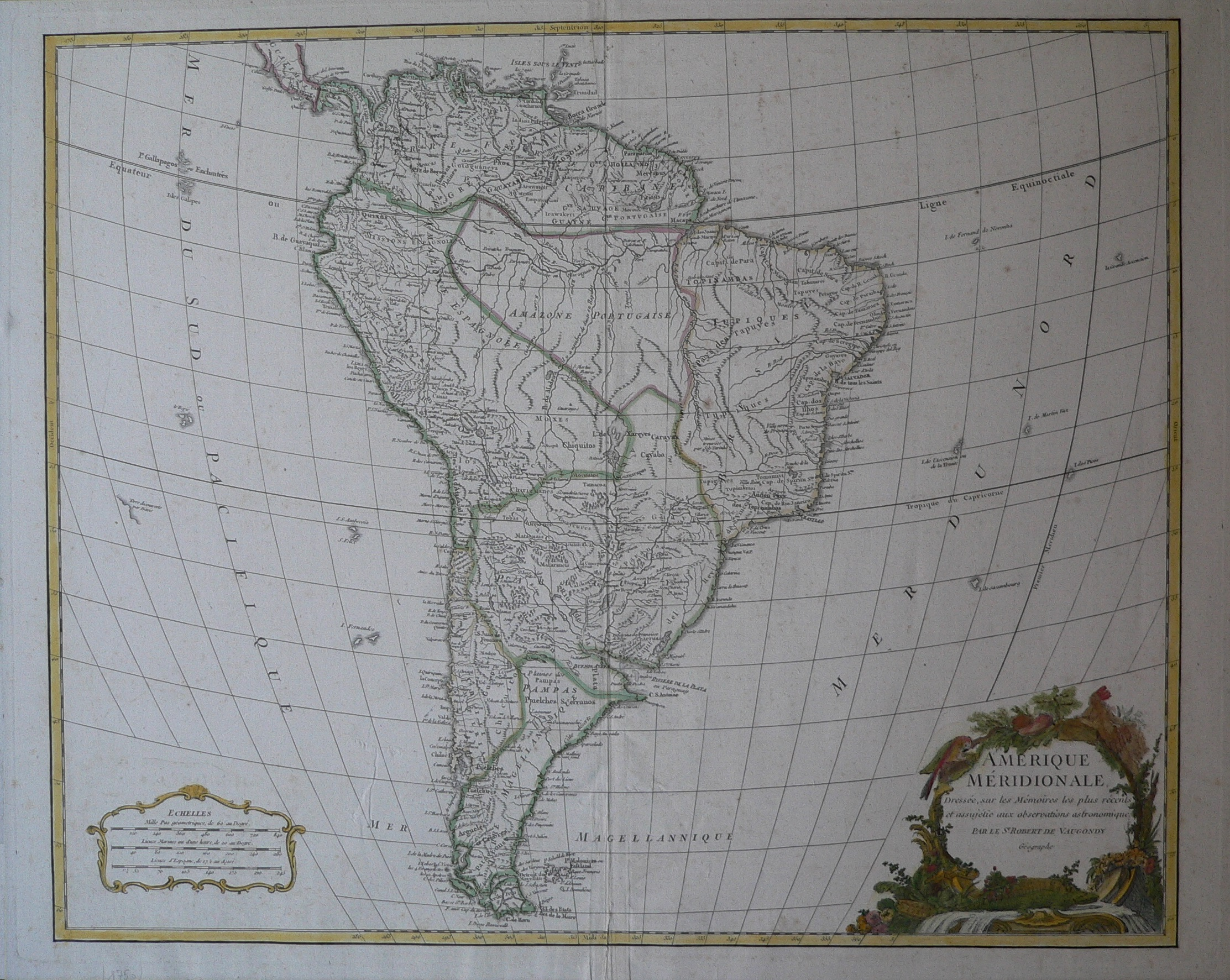 South America